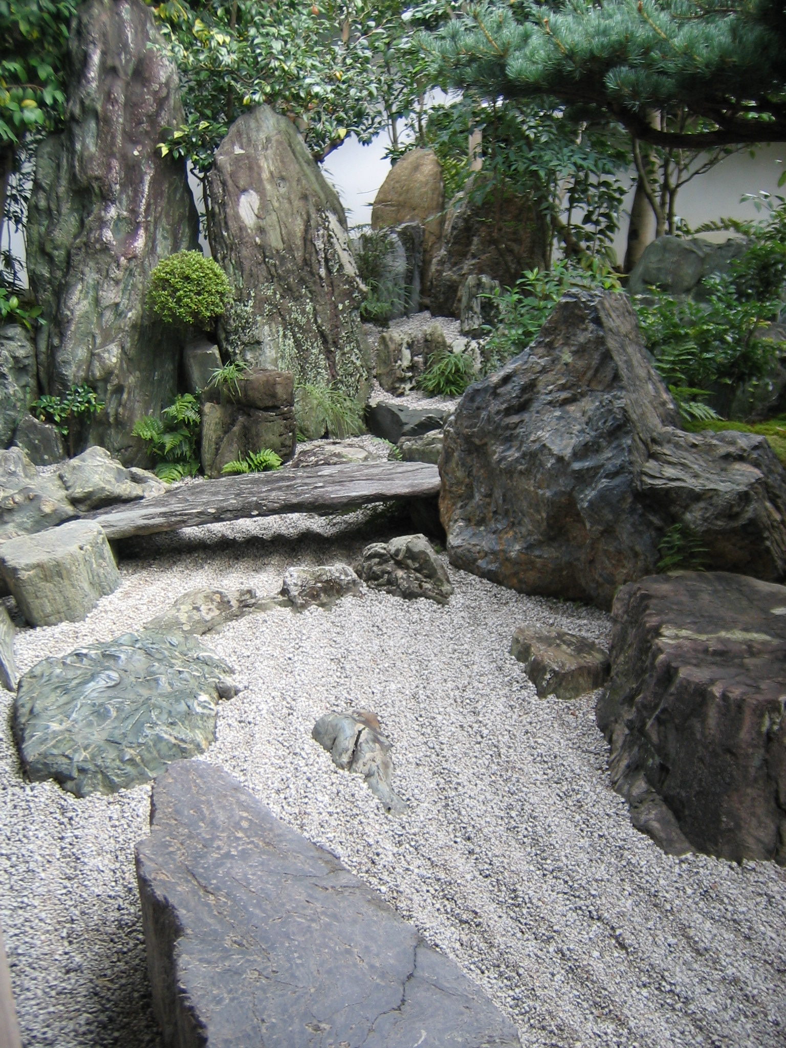 View of the daisen-in stone garden Horaisan mountain in Daitokuji